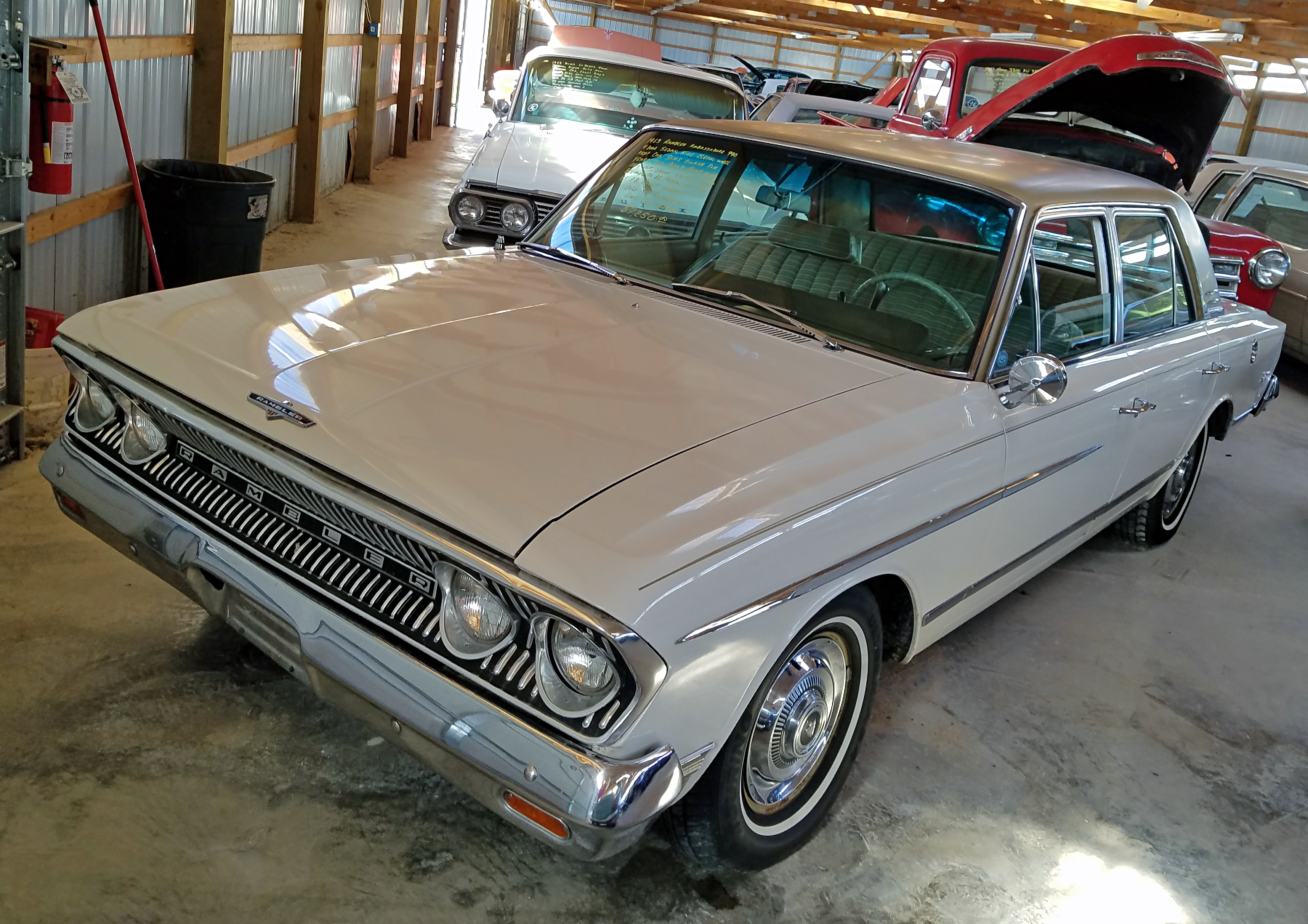 1963 Rambler Ambassador 990 Sedan